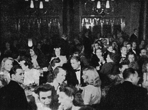 Audience of the Jussi Award in Restaurant Adlon in 1944.